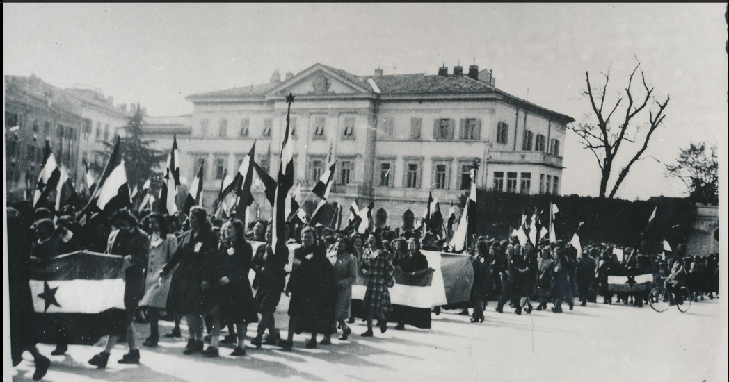 Pro-Yugoslav rally - Gorizia, march 27, 1946